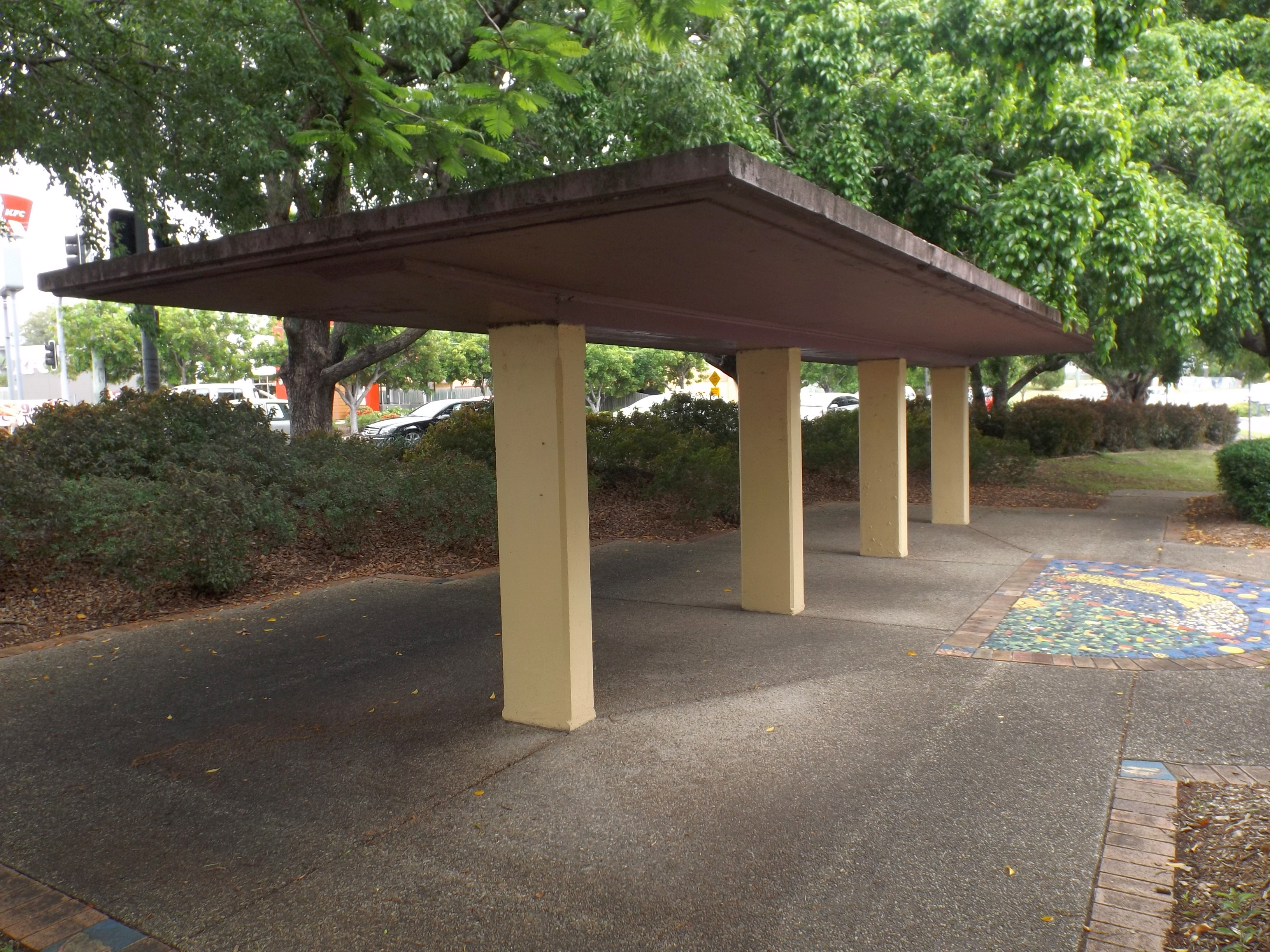 Photo of Morningside Air Raid Shelter at Morningside, Brisbane, Queensland, Australia.